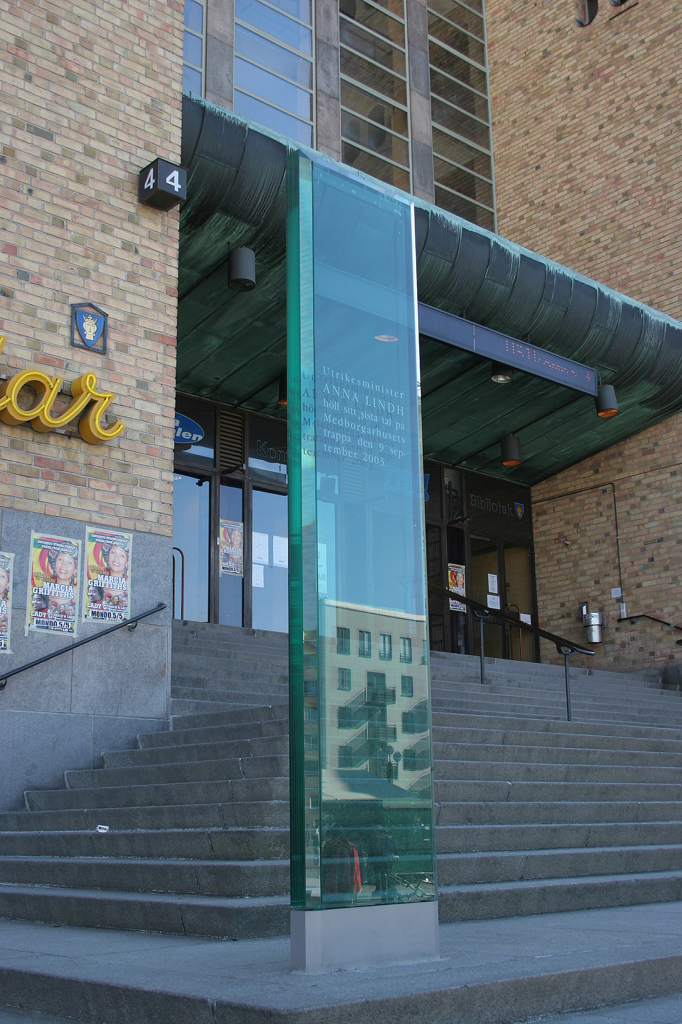 Anna Lindh memorial at Medborgarplatsen, Stockholm, Sweden. Text translates to "Minister of foreign affairs ANNA LINDH held her last speach on the stairs of Medborgarhuset September 9, 2003"